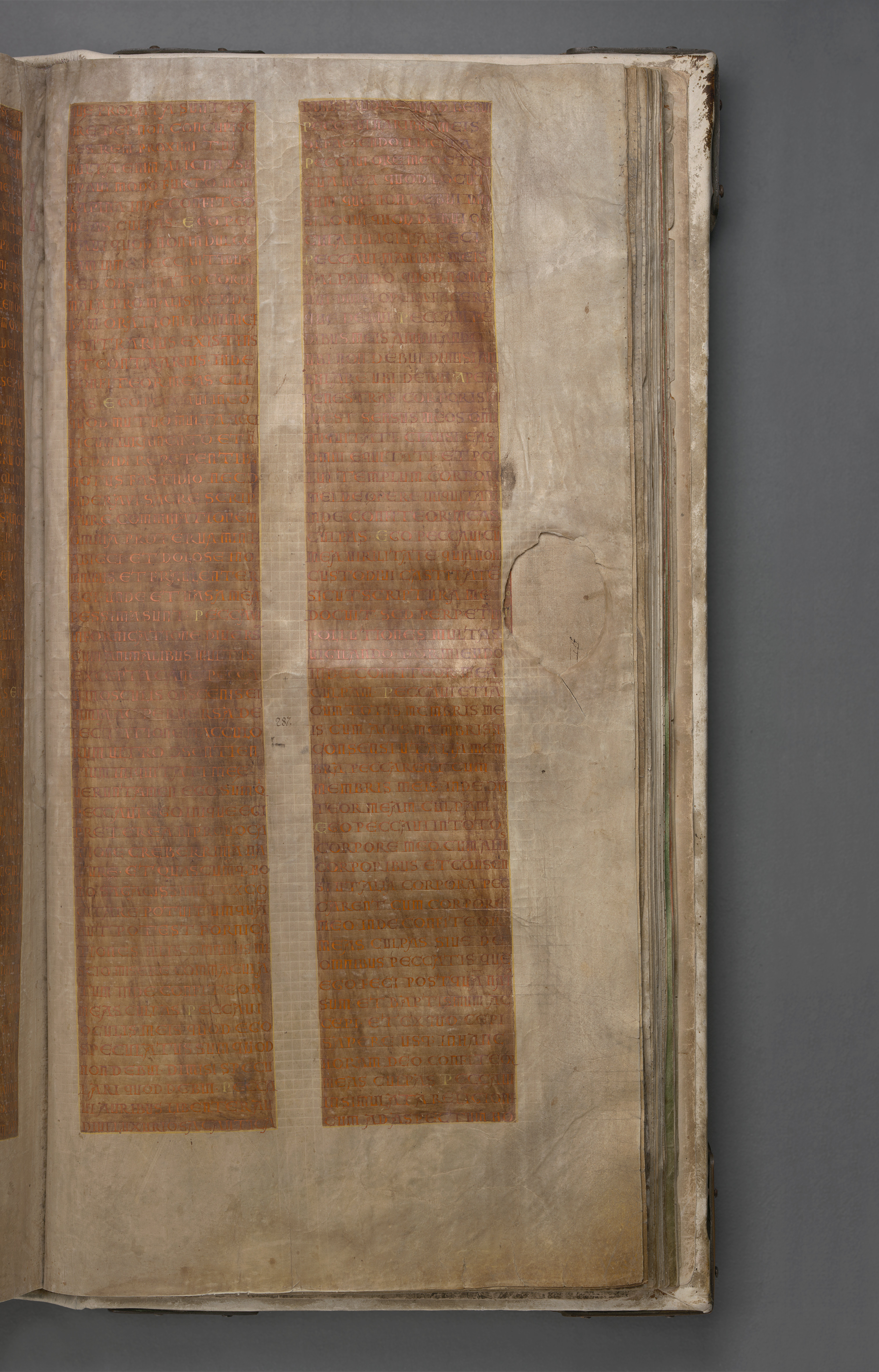 Giant Book) is the largest extant medieval manuscript in the world. It is also known as the Devil's Bible because of a large illustration of the devil on the inside and the legend surrounding its creation. It is thought to have been created in the early 13th century in the Benedictine monastery of Podlažice in Bohemia (modern Czech Republic). It contains the Vulgate Bible as well as many historical documents all written in Latin. During the Thirty Years' War in 1648, the entire collection was taken by the Swedish army as plunder, and now it is preserved at the National Library of Sweden in Stockholm, though it is not normally on display.